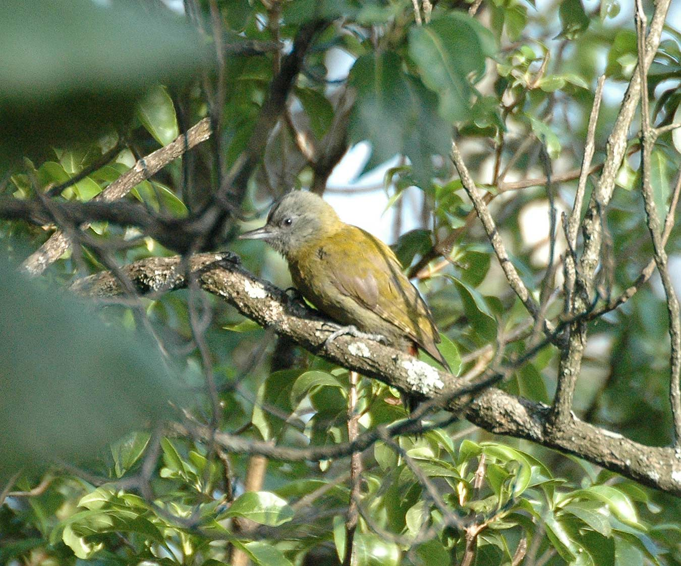 Olive Woodpecker (Dendropicos griseocephalus) Mosese, Bwindi NP, SW Uganda